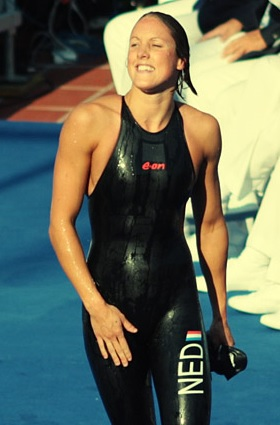 Marleen Veldhuis after her world record on 50 fly in the semis.